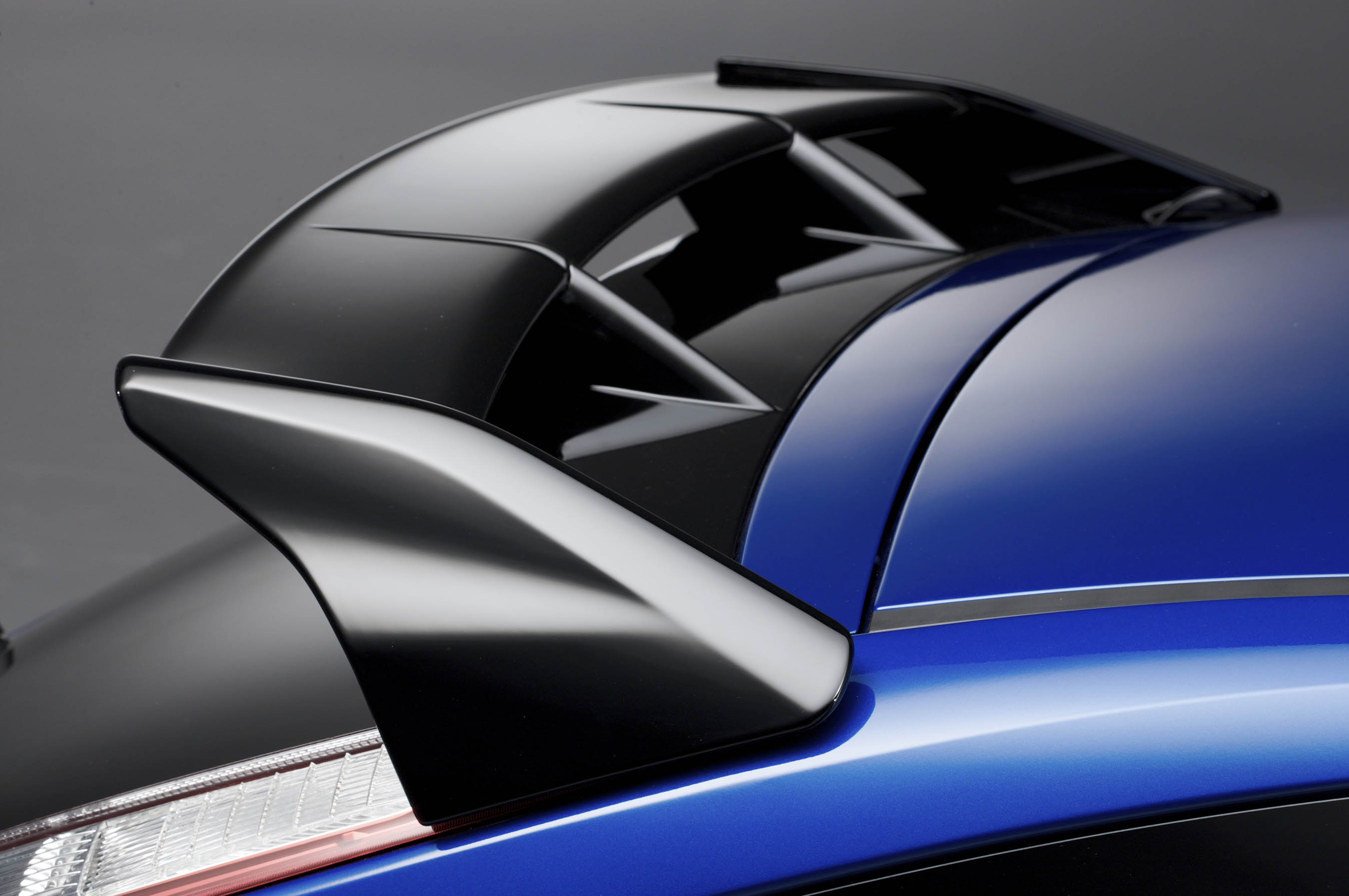 The Ford Focus RS Mk II in Performance Blue colour scheme. Wing detail.